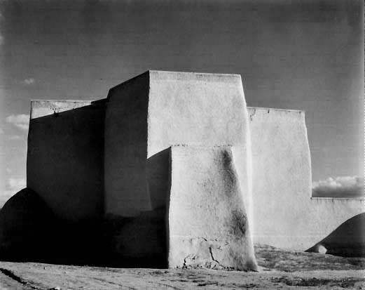 Mission Church at Rancho de Taos — northern New Mexico, built circa 1772. Platinum print photograph by Laura Gilpin in 1930. Reproduction #: LC-USZC4-3921 (color transparency). Built in 1772 by Spanish missionaries and native Americans, the Mission Church is an amalgam of European and indigenous building traditions. Made of adobe, a brick composed of straw and mud, the walls slope outward to buttress the structure and to fend off the effects of torrential rains. The Mission Church was recorded in photographs and drawings by the Historic American Buildings Survey in the 1930s and has enjoyed great popularity with artists such as photographer Laura Gilpin and painter Georgia O'Keefe, who both lived nearby. (Gift of the photographer).